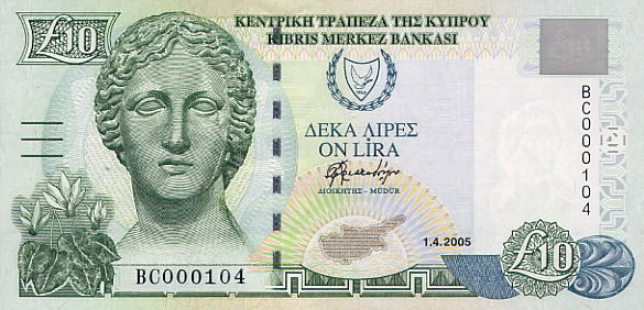 10 pounds